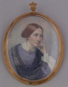 Portrait of Elizabeth Lincoln Gould by Laura Coombs Hills, ca. 1900.